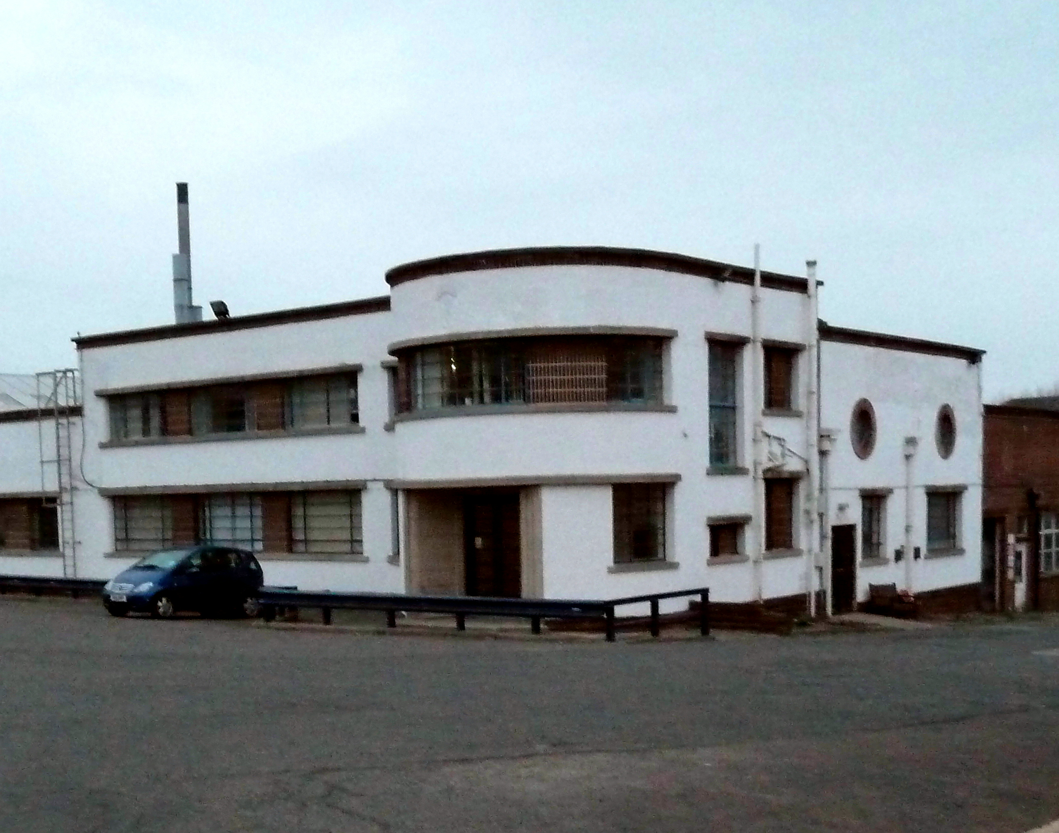 Dunlop factory office at Pannal, North Yorkshire